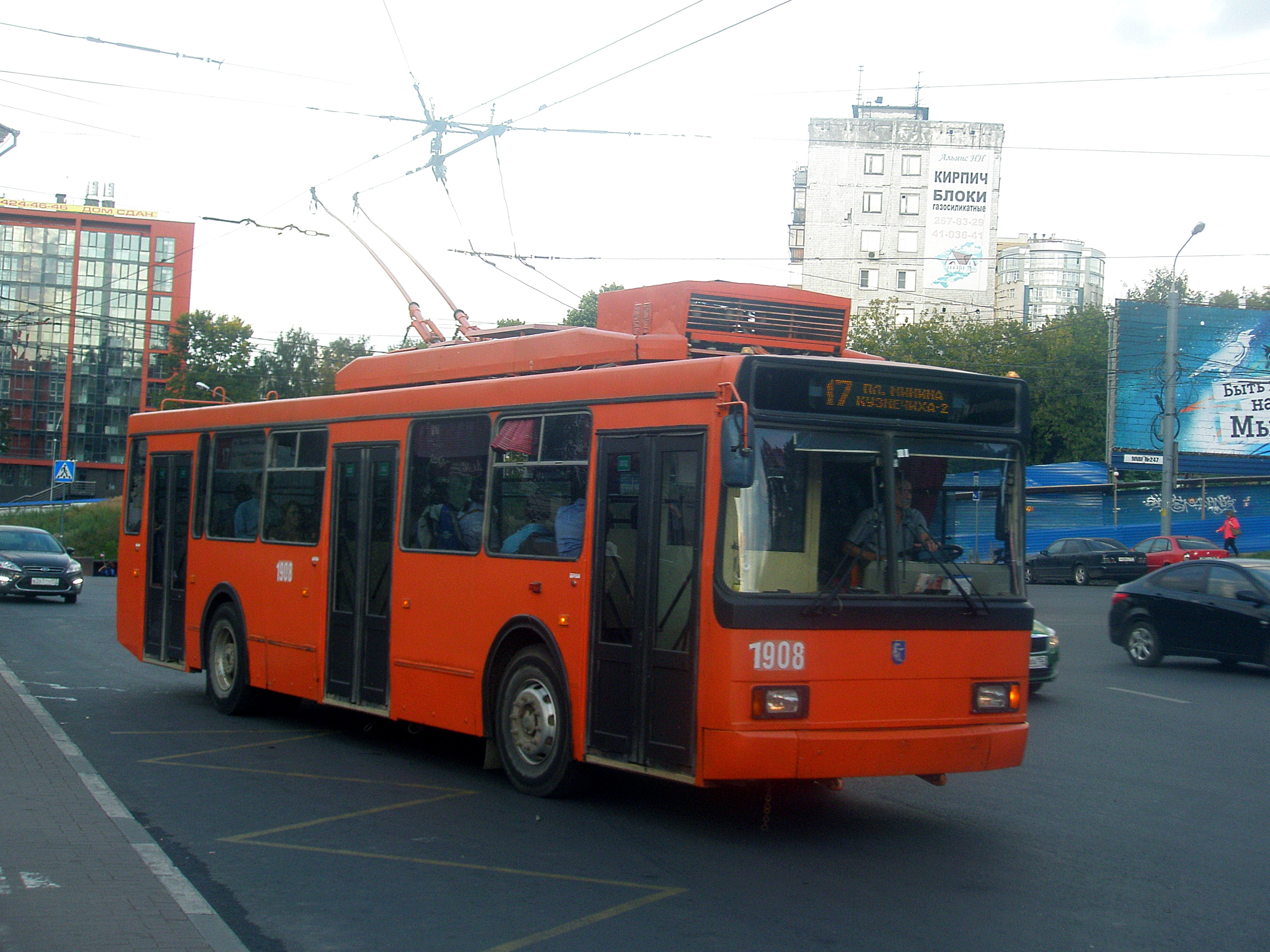 Trolleybus VMZ-52981 number 1908 in Nizhny Novgorod on Freedom Square